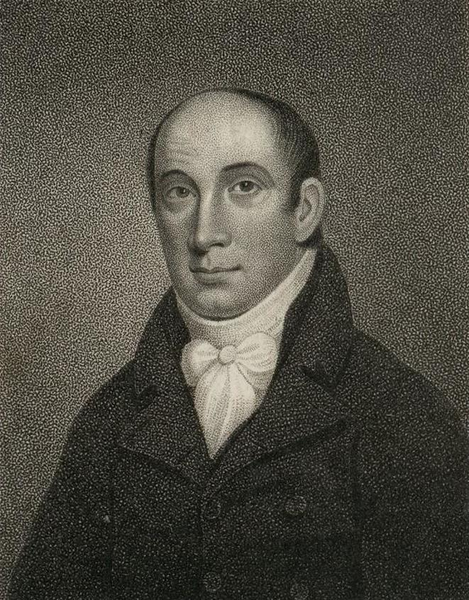 A portrait from the Welsh Portrait Collection at the National Library of Wales. Depicted person: William Ward – English pioneer Baptist missionary, author, printer and translator